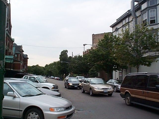 Angle (diagonal) parking creates 30% more parking than parallel parking. However, it has safety drawbacks, especially for cyclists: cars backing out can't see cyclists until too late. The solution is to have cars back into angle parking, rather than nosing into it. Two instances of reverse angle parking on Chicago's north side, including this one, are alongside large Catholic churches whose parishioners once walked to mass but now largely drive.